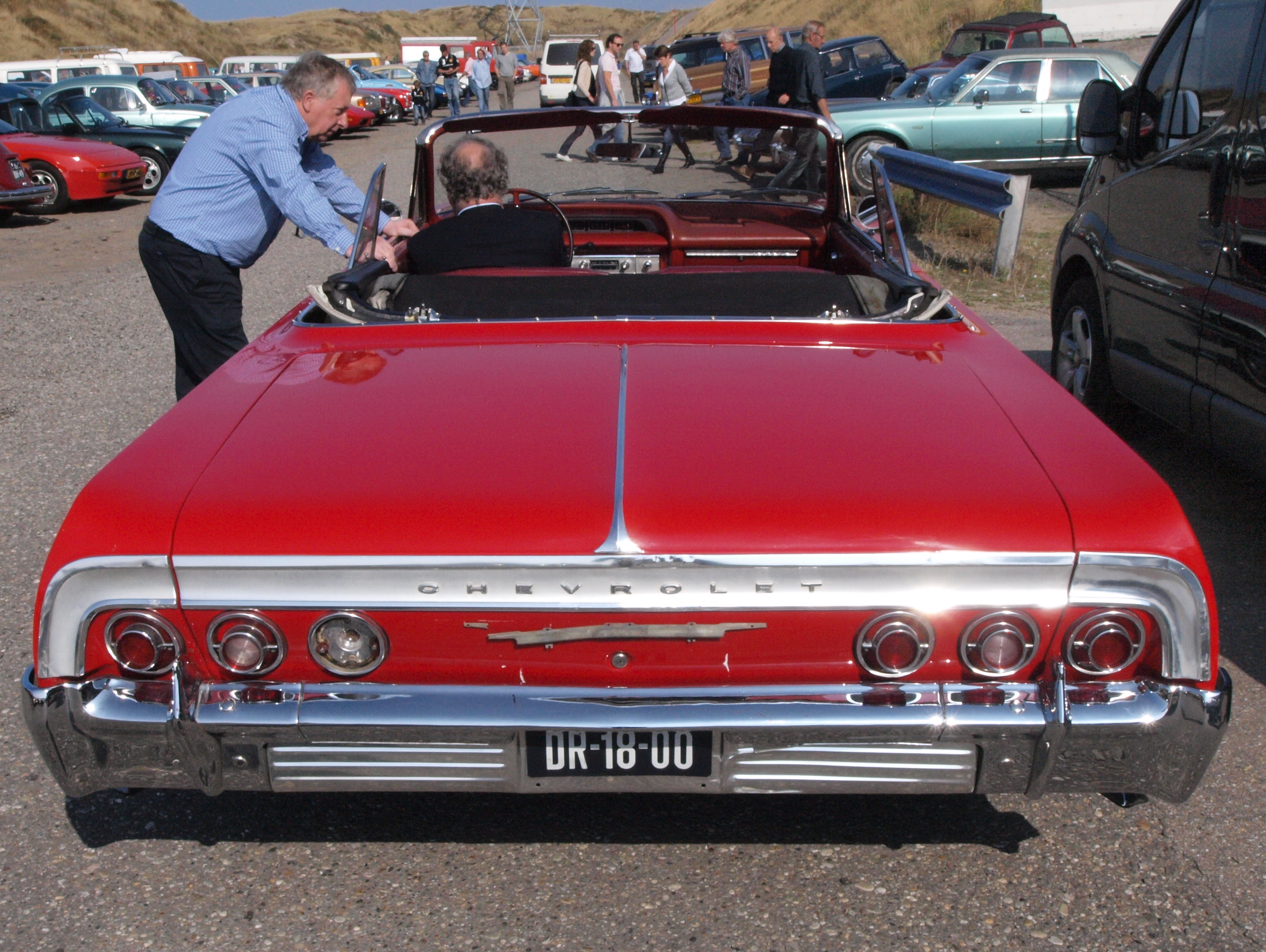 Photographed at the Nationaal Oldtimer Festival Zandvoort 2009, The Netherlands. OLYMPUS DIGITAL CAMERA